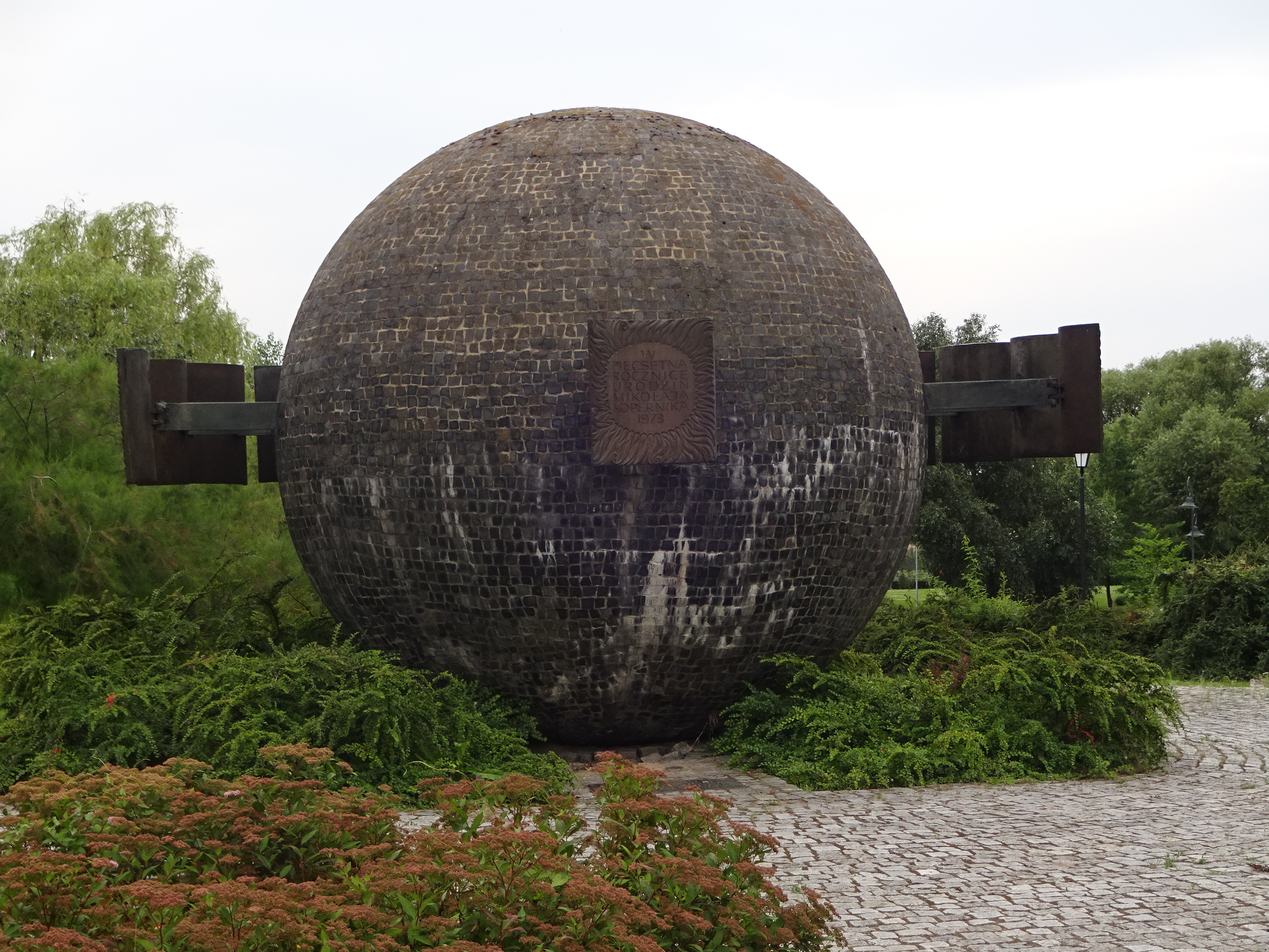 Sundial in the Valley of Dreams in Toruń